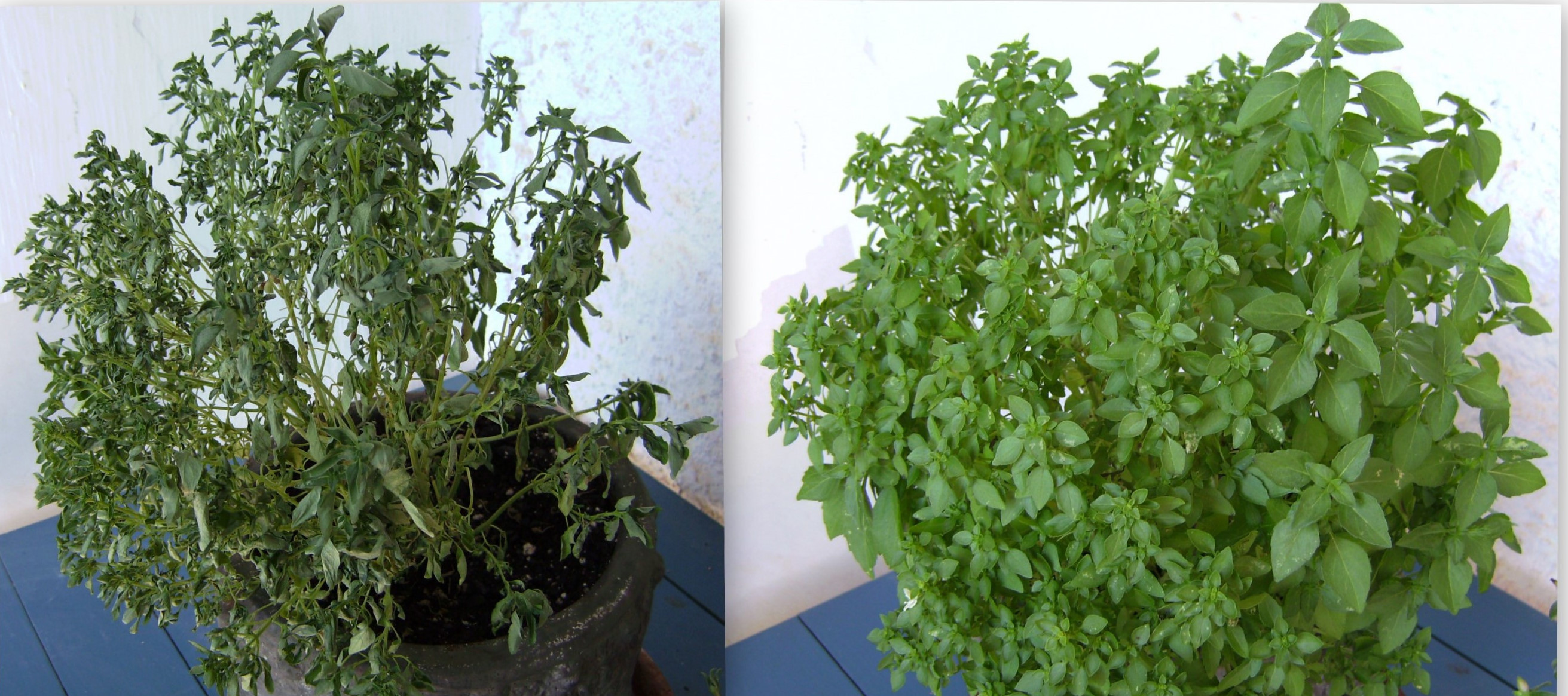 A wilted basil (Ocimum basilicum) plant and one day after irrigation, Castelltallat, Catalonia